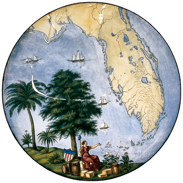 The 1861 version of the Seal of Florida.